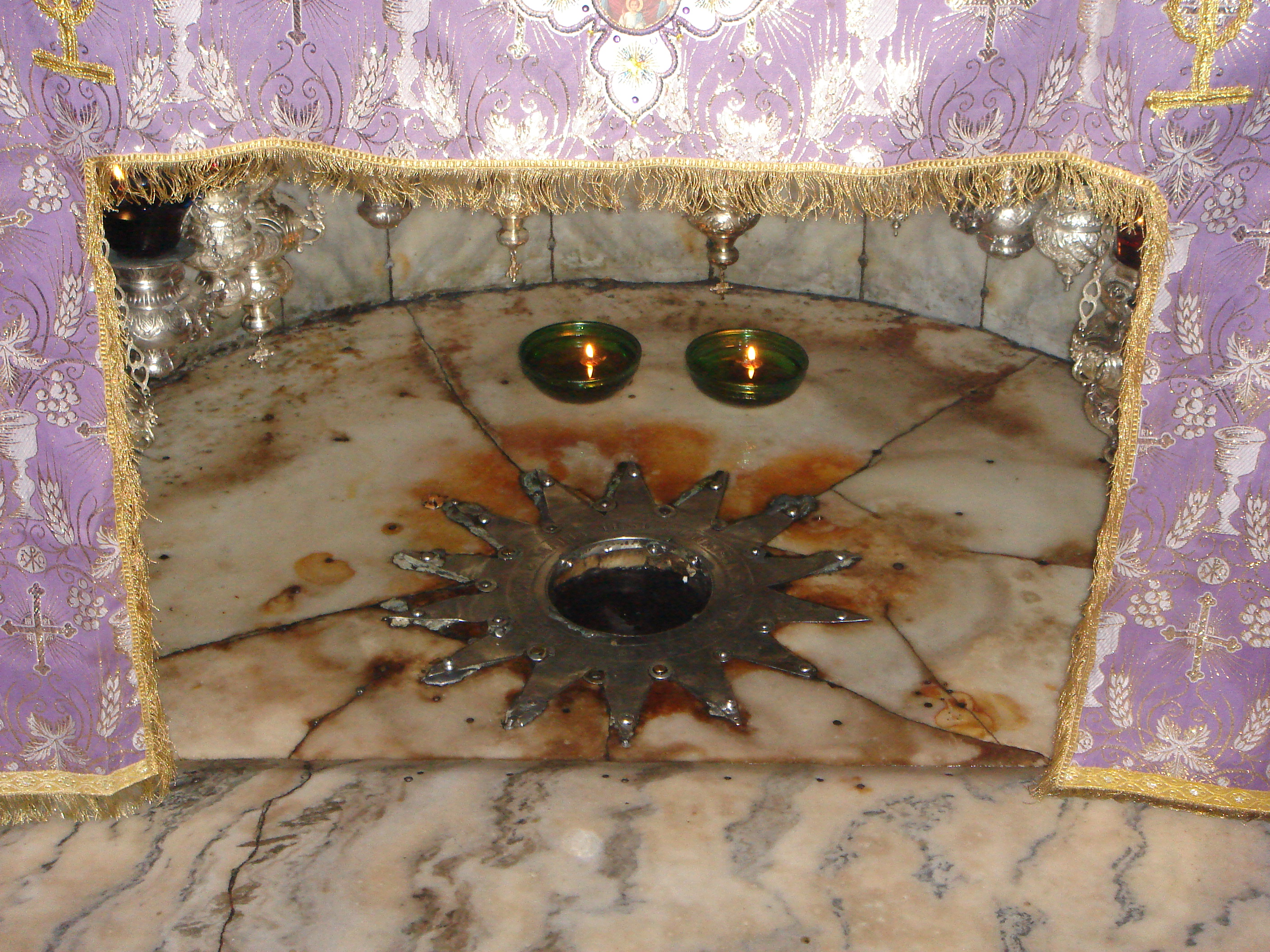 The birthplace of Jesus in the Grotto of the Nativity.